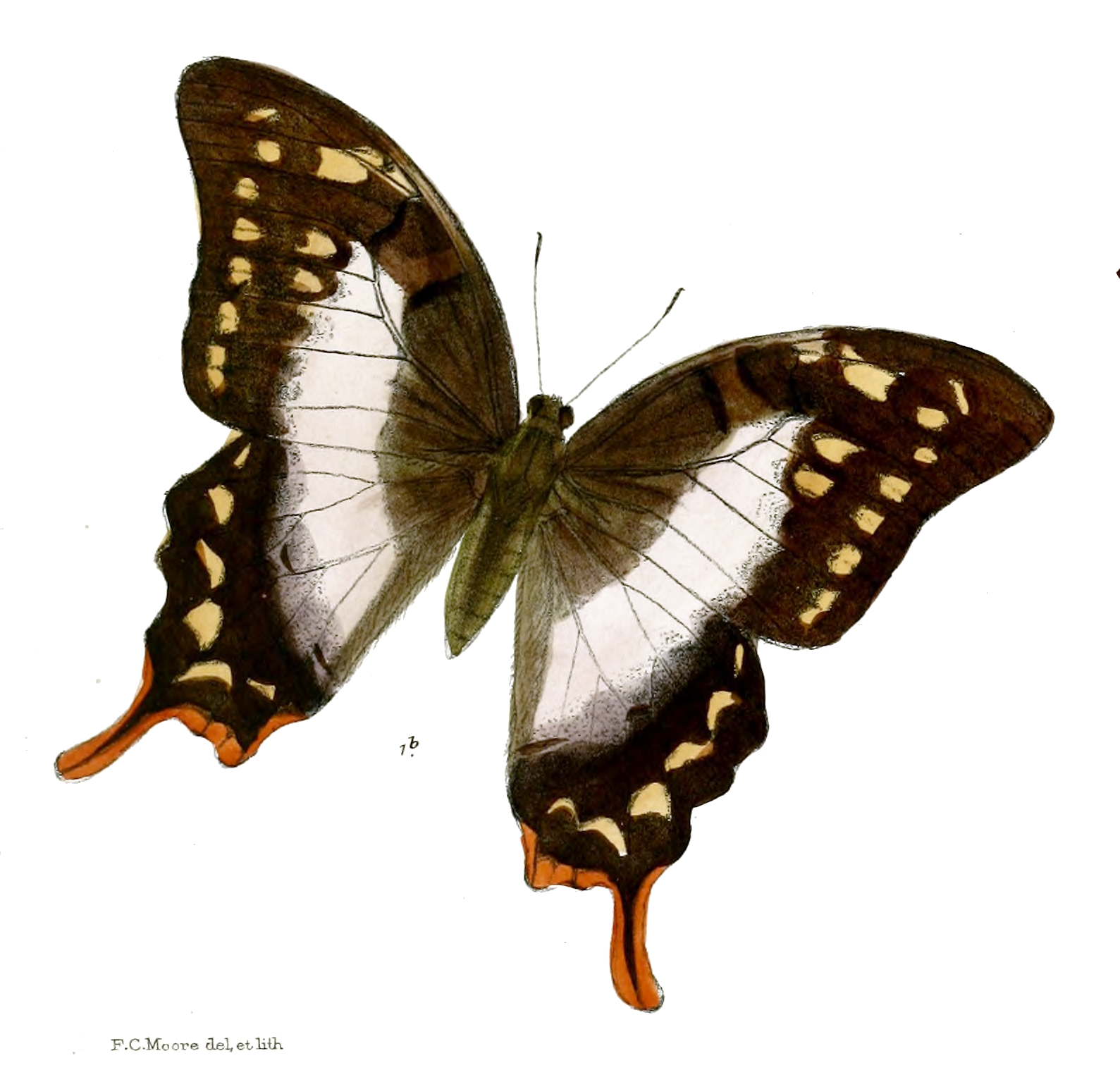 Dabas gyas = Meandrusa sciron (female)